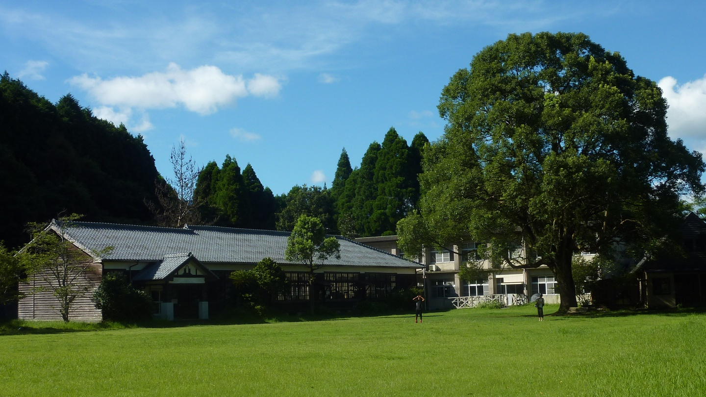 Ruin of Nagatani Elementary School (Kawanabe, Minamikyushu City, Kagoshima, Japan)